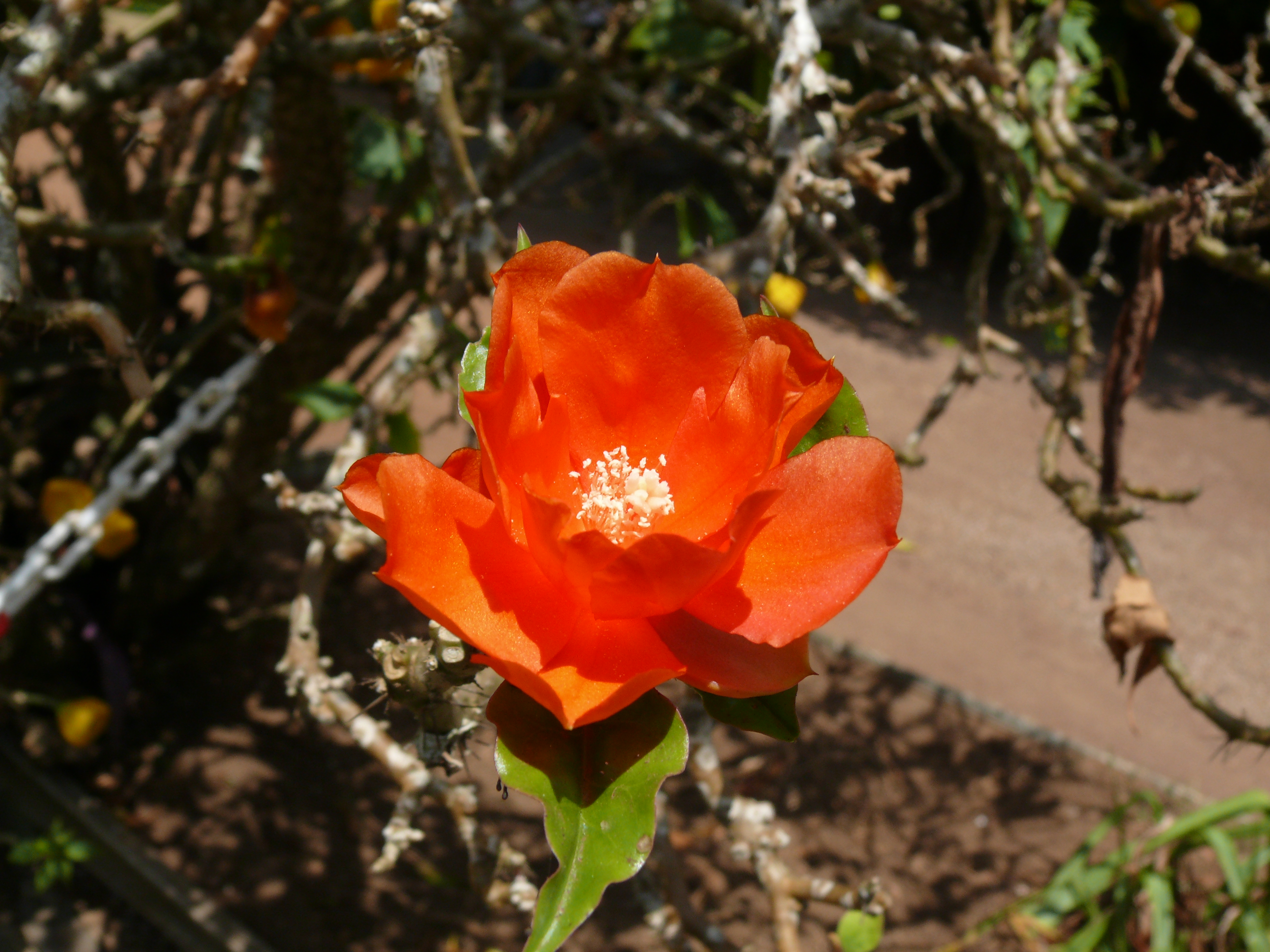 Bright orange-red flower of a fruit-bearing tree (Pereskia bleo) found on Royale Island in French Guiana.